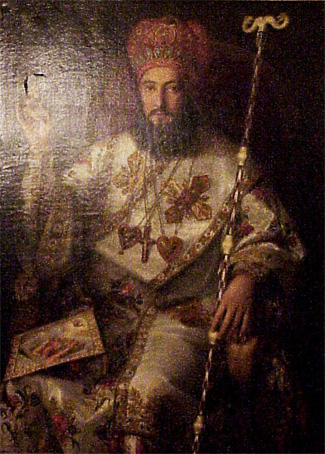 Maximos III Mazloum, Patriach of the Melkite Church